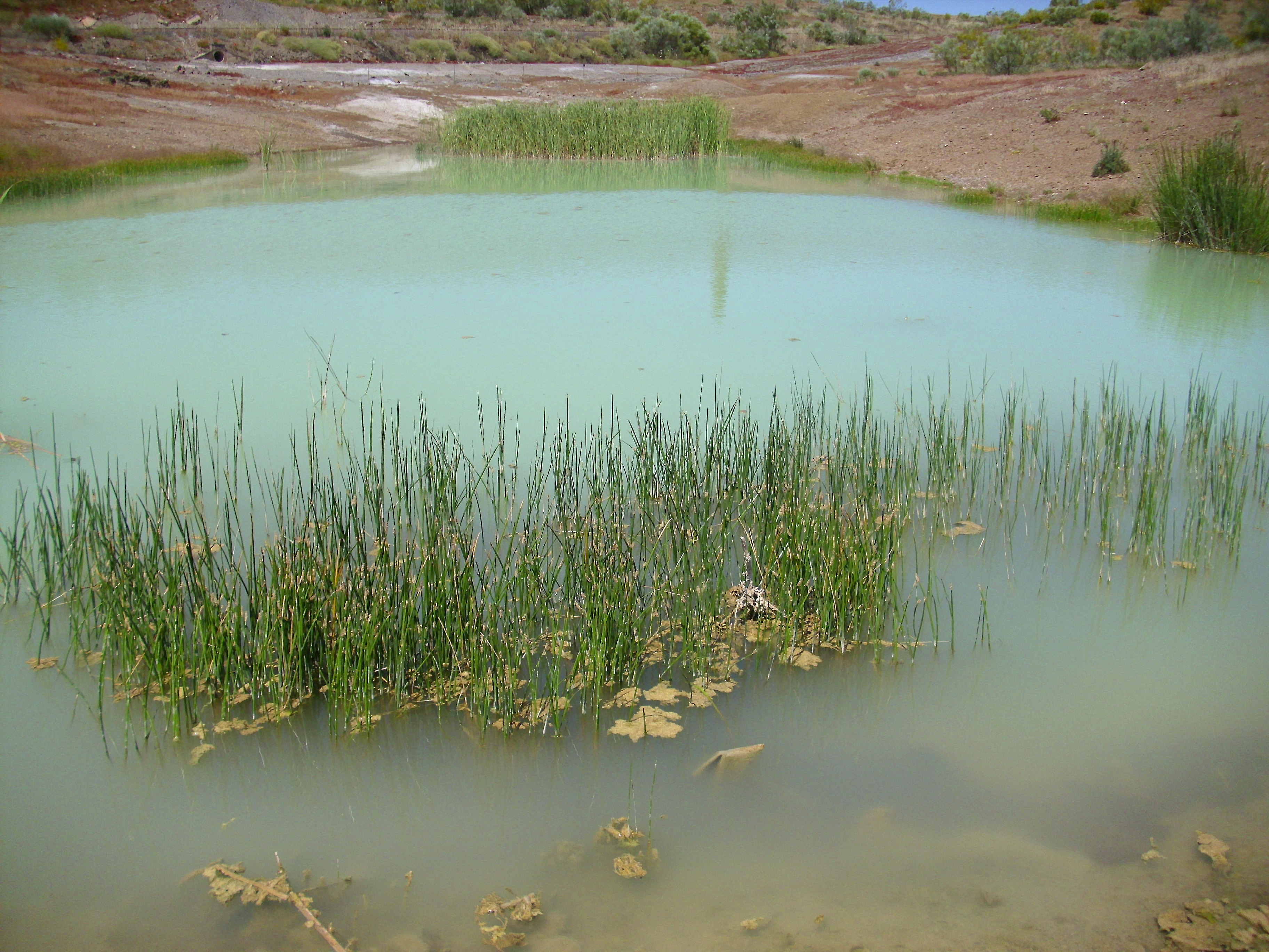 Eleocharis palustris habitat, Valle de Alcudia, Spain